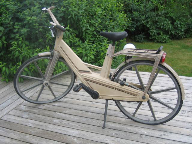 Plastic bicycle, photo by myself.